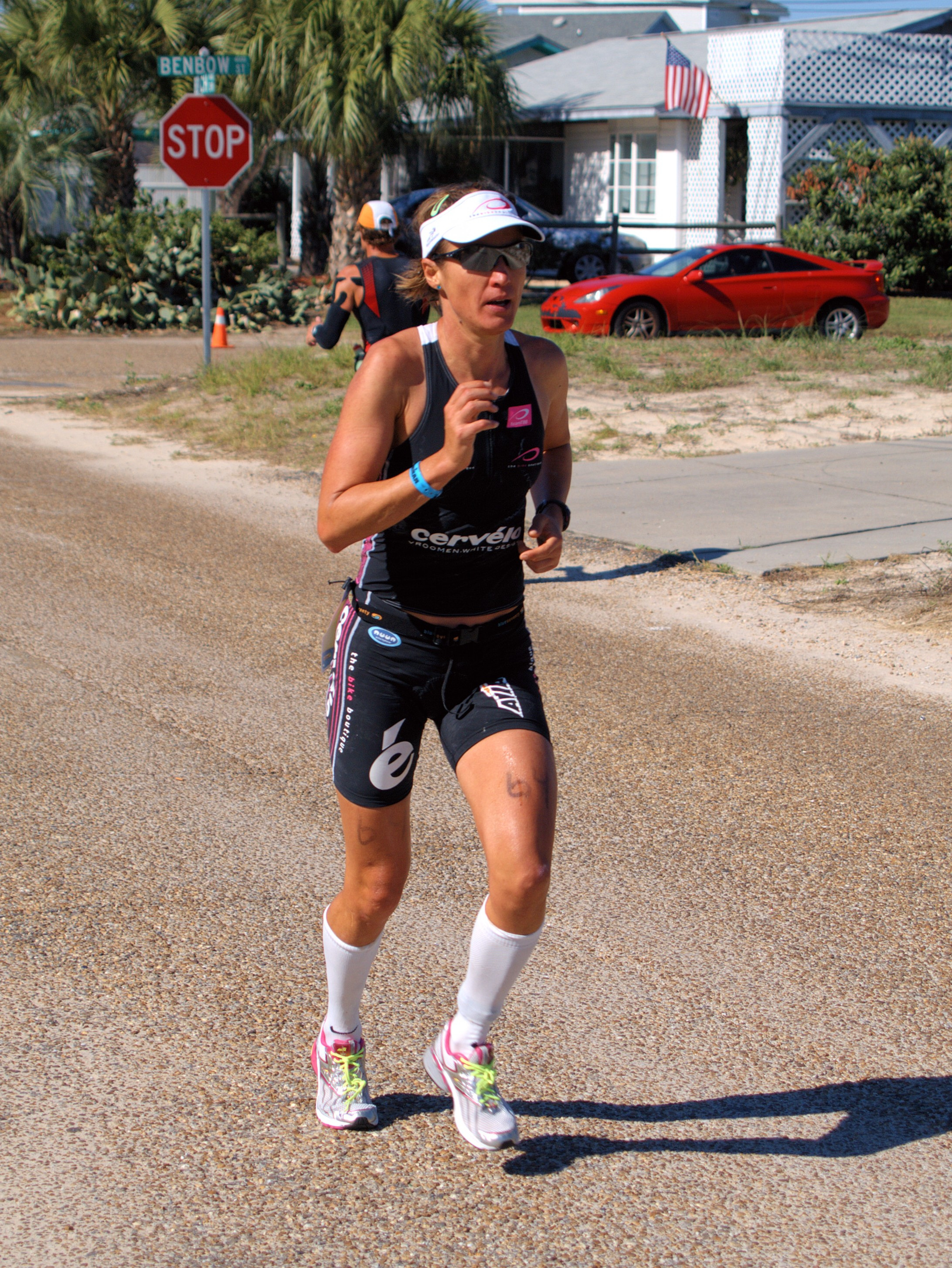 Erika Csomor 2nd Female on running course at Ironman Florida 2010